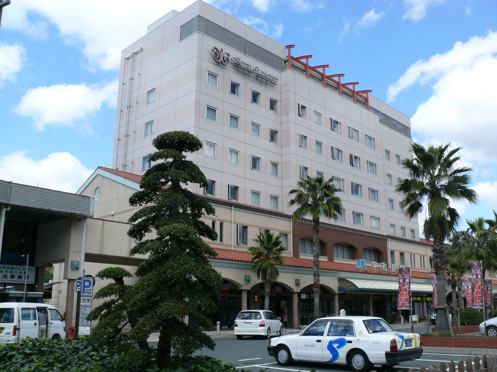 Shikoku Railway Company Uwajima Station.